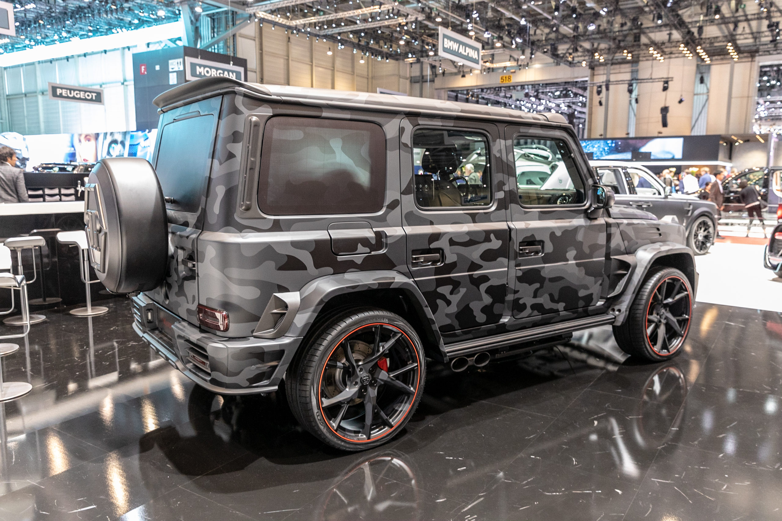 Mansory at Geneva International Motor Show 2019, Le Grand-Saconnex